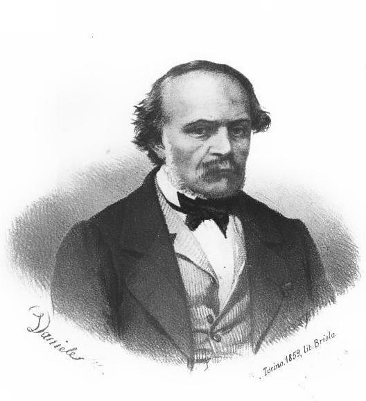 Portrait of the Italian writer Francesco Regli (1802-1866)